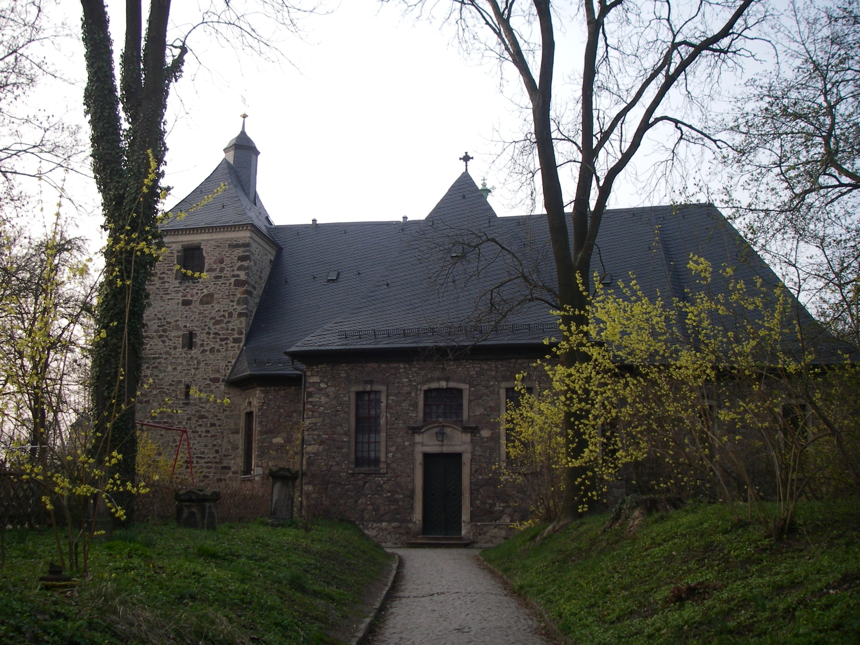 Bartholomäuschurch in Halle